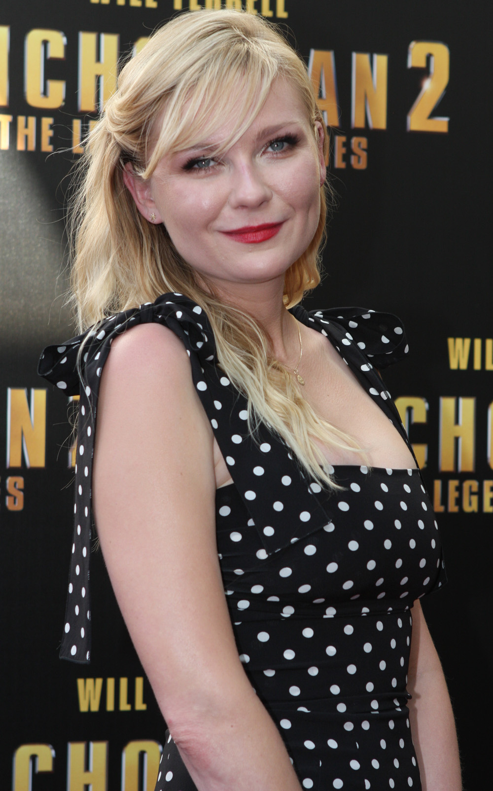 Kirsten Dunst at Anchorman 2 The Australian Premiere 2013.